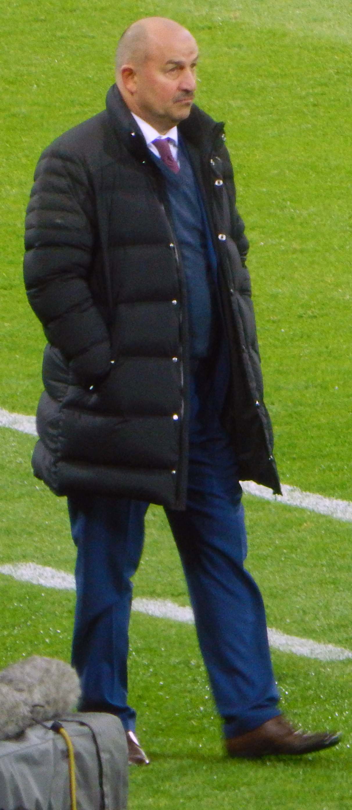 This photo was taken on March 28, 2017 during the exhibition game between Russia and Belgium. That game was held in Adler (City of Sochi) at the Fisht stadium.